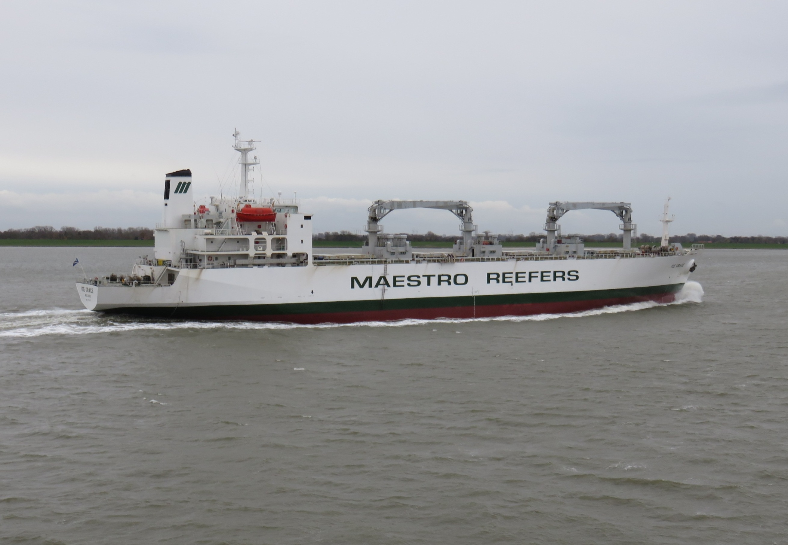 Reefer ship Ice Grace underway from the Kiel Canal to the North Sea